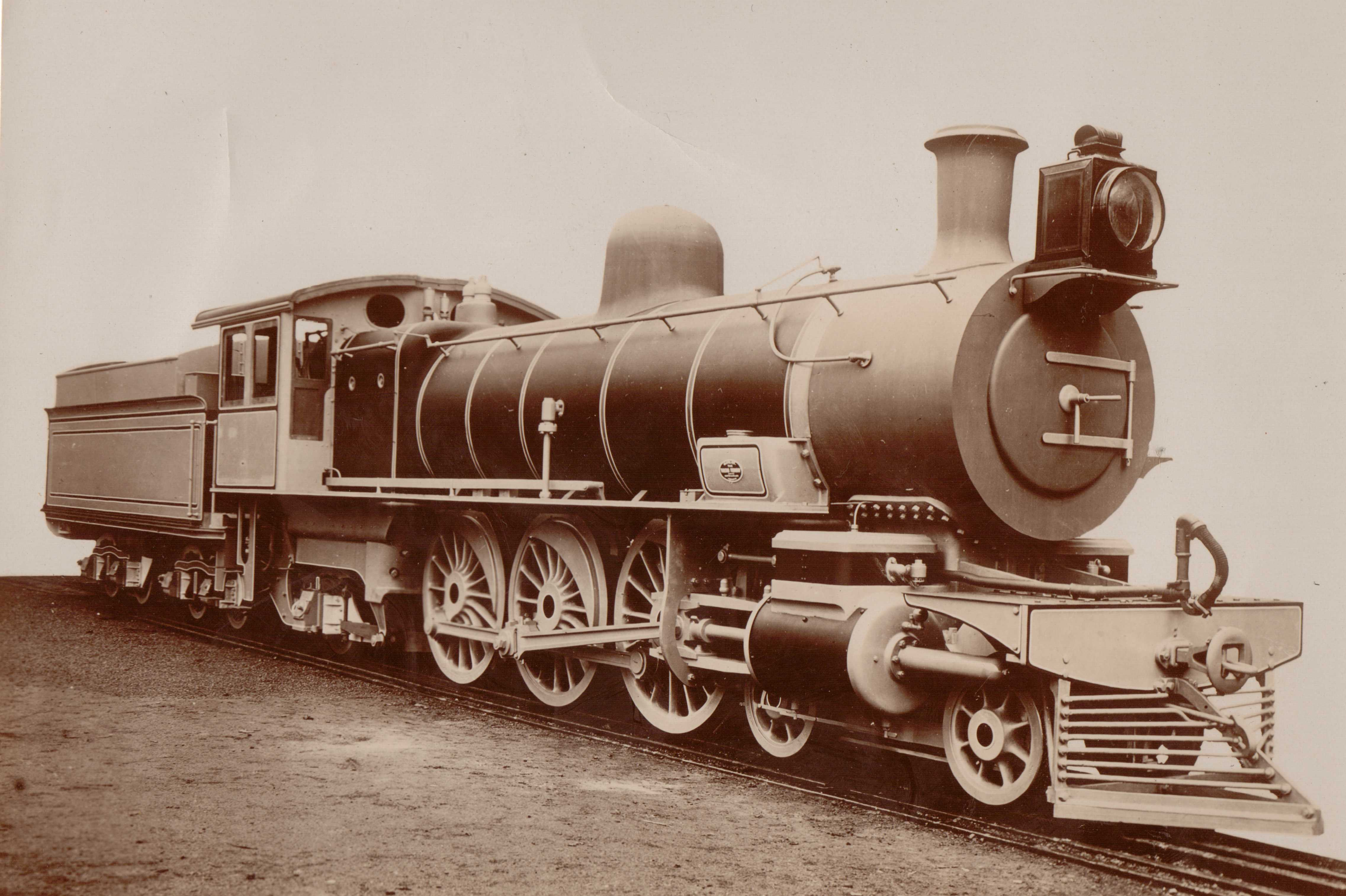 South African Railways Class 5 780 (4-6-2)